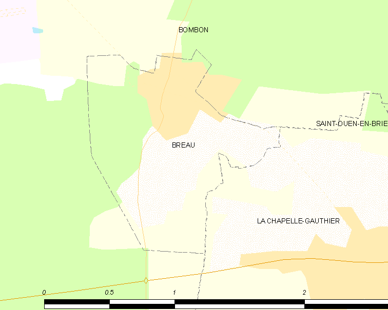 Map of French municipality Bréau